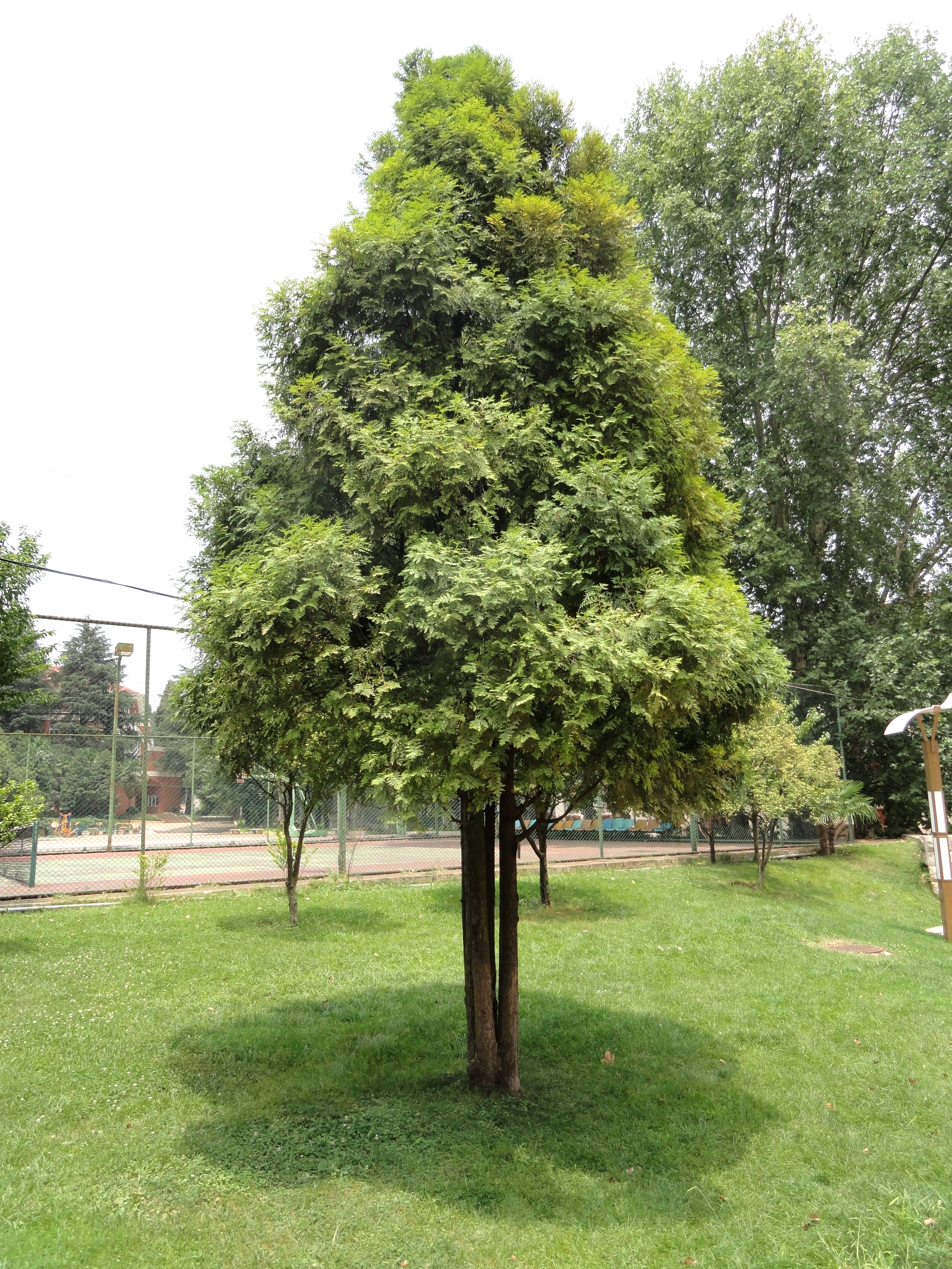 Chamaecyparis hodginsii (syn. Fokienia hodginsii). Plant specimen in the Kunming Botanical Garden, Kunming, Yunnan, China.